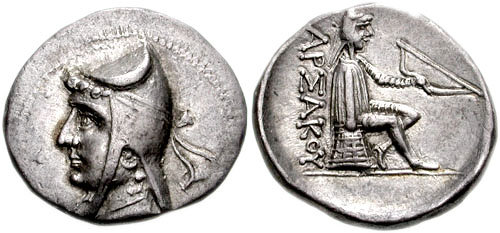 Coin of Mithridates I of Parthia wearing a soft cap.